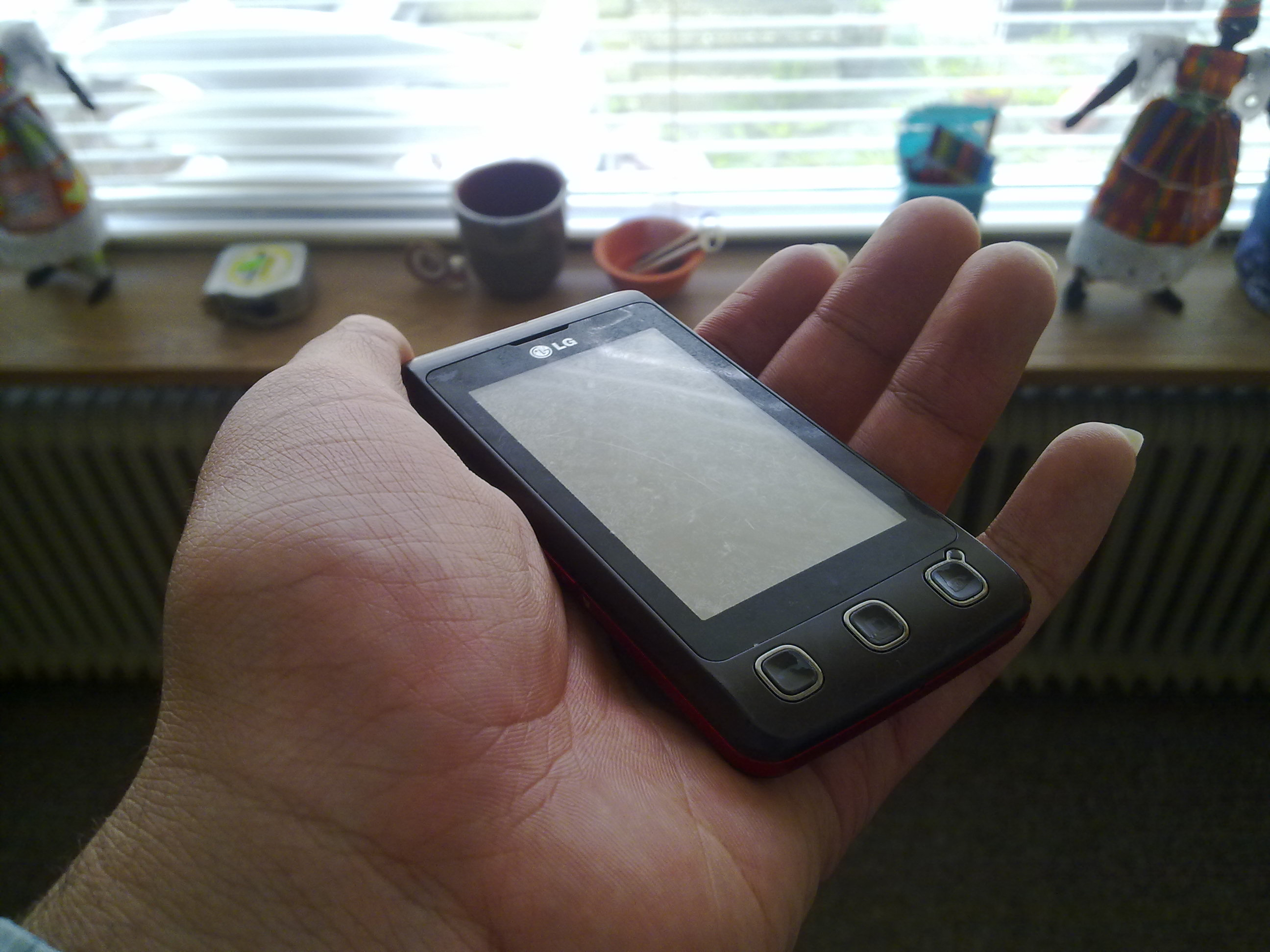 A man holding an L.G. Cookie mobile telephone.